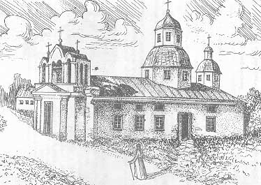 Mariupol old church